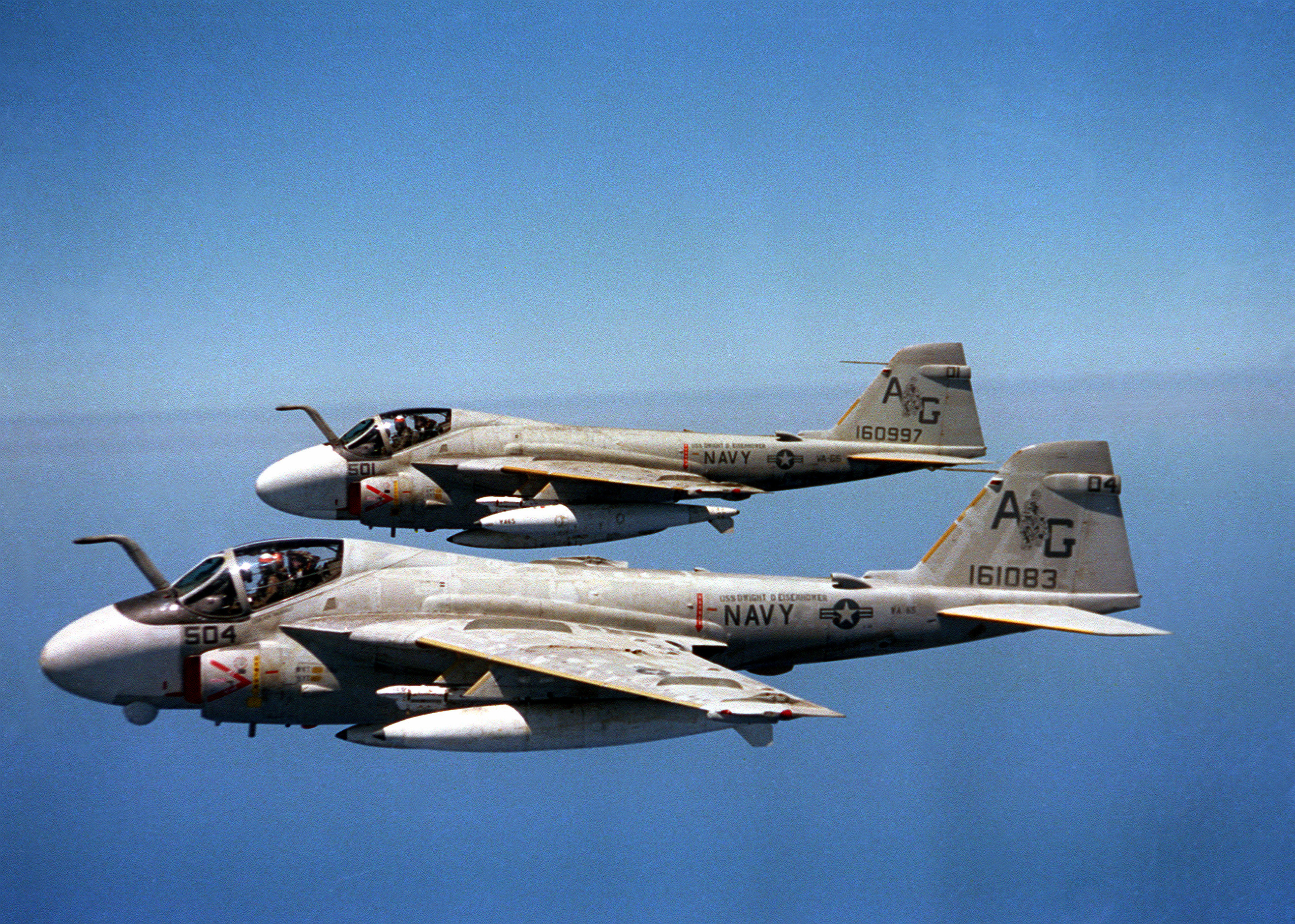 Two U.S. Navy Grumman A-6E Intruder (BuNo 160997, 161083) from Attack Squadron 65 (VA-65) "Tigers" in flight on 20 April 1987. VA-65 was assigned to Carrier Air Wing 7 (CVW-7) aboard the aircraft carrier USS Dwight D. Eisenhower (CVN-69).